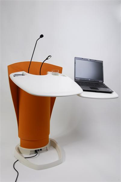 A modern lectern Flextern